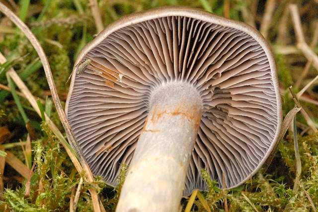 Cortinarius malachius from Commanster, Belgian High Ardennes .